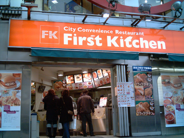 First Kitchen (fast food restaurant chain) Shinjuku-Minamiguchi shop in Nishi-Shinjuku, Shinjuku, Tokyo